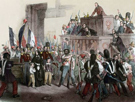 The dowager duchess of Orléans enters the National Assembly with her two sons and the duke of Nemours unsuccessfully trying to be proclaimed regent for her first son Louis Philippe, count of Paris; Paris 24 February 1848